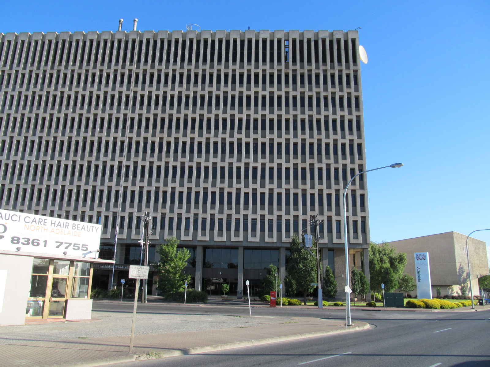 The South Australian offices of the Australian Broadcasting Corporation (ABC) on North East Road, Collinswood, Adelaide.